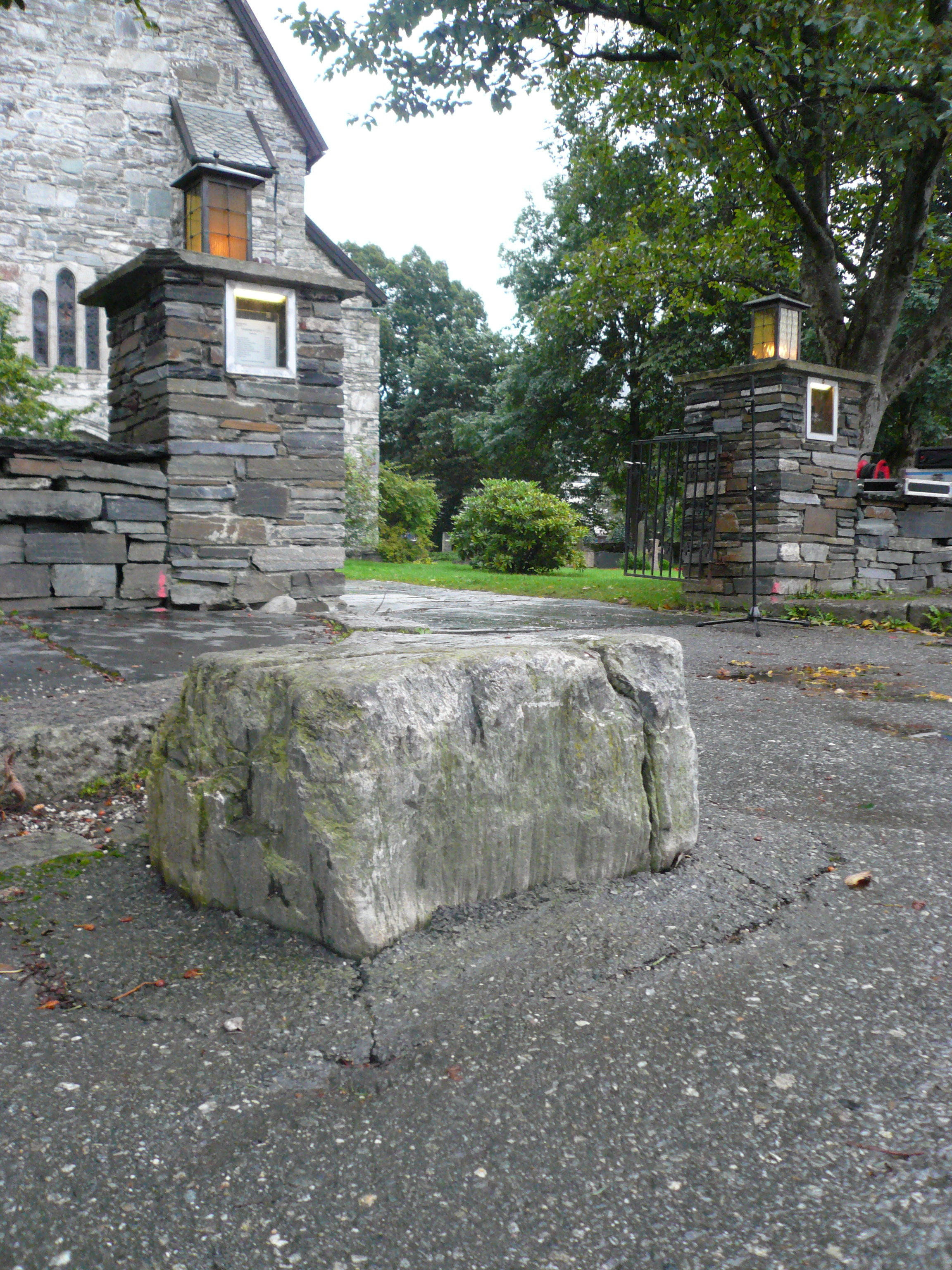 Lensmannssteinen, Voss, Norway.